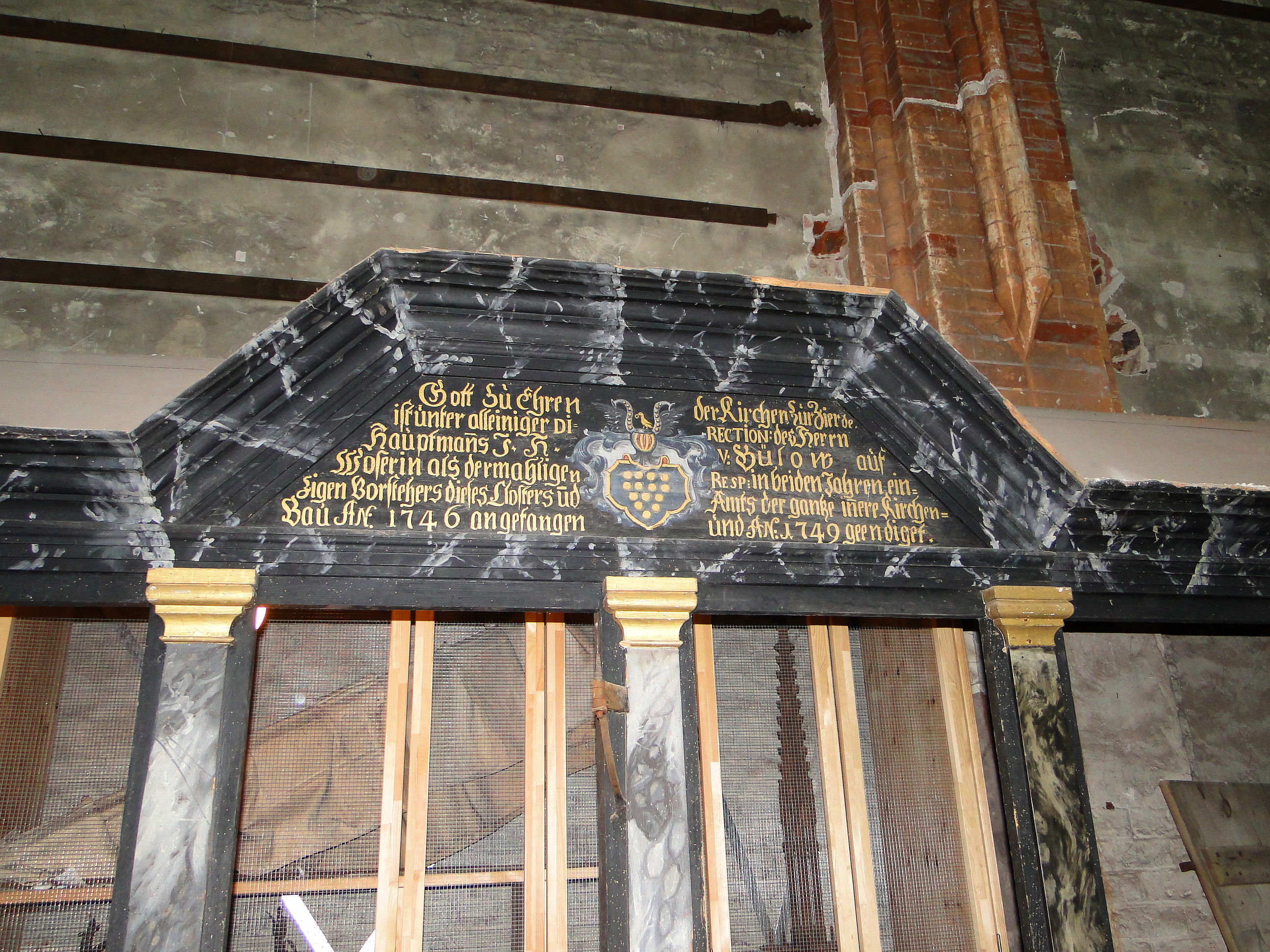 Interiors at nuns' matroneum at church in Monastery in Dobbertin, district Parchim, Mecklenburg-Vorpommern, Germany